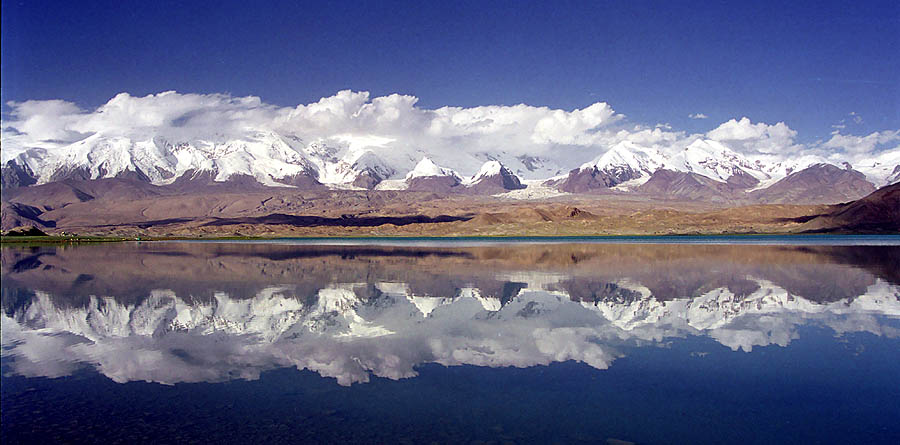 Mt Kongur and Lake Karakul viewed by the Karakoram Highway, Xinjiang, China